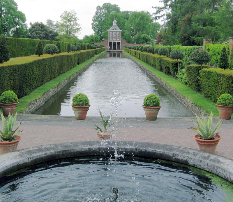 Westbury Court Garden